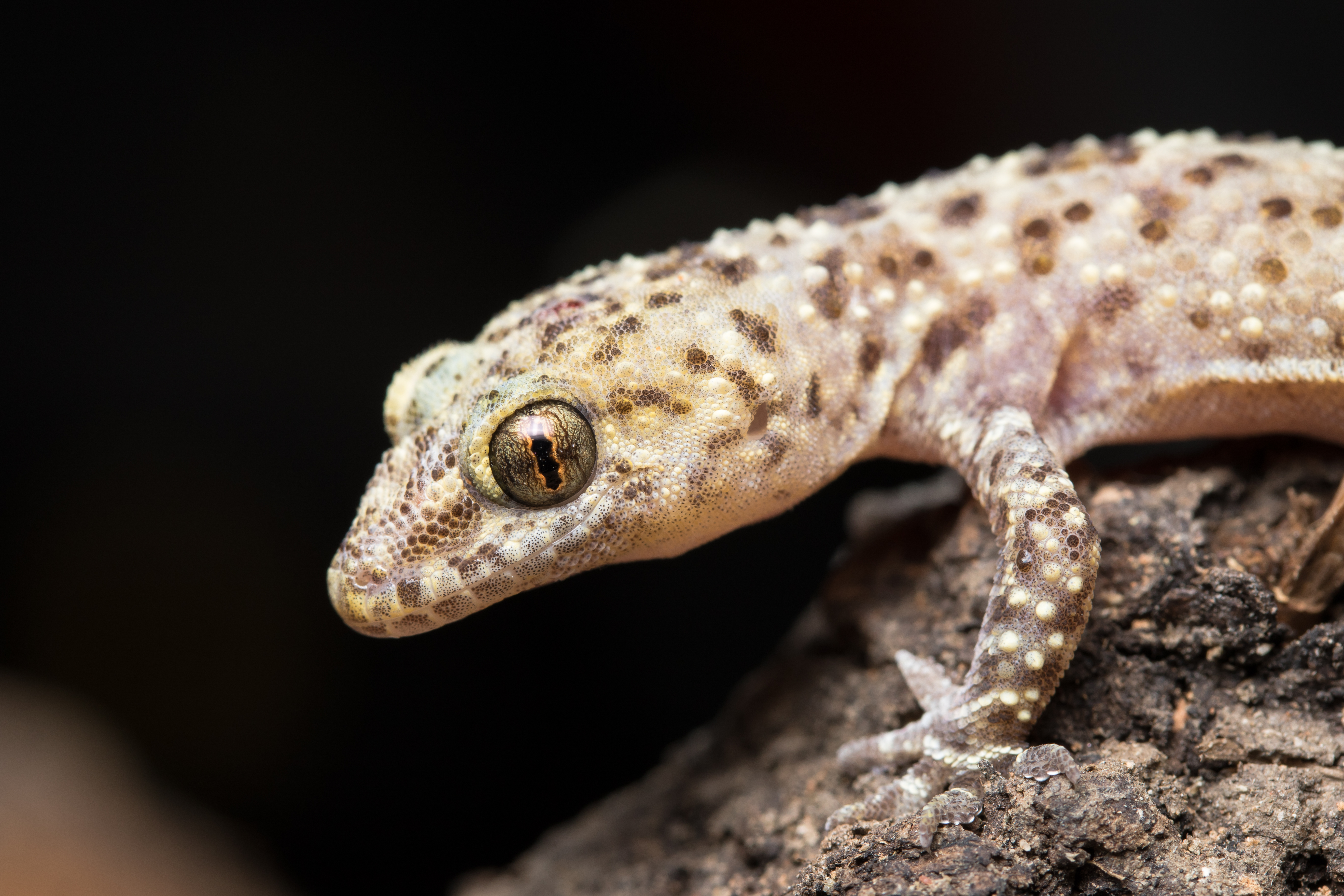 Konstantinos Kalaentzis - Hemidactylus turcicus (Rhodes, Greece)